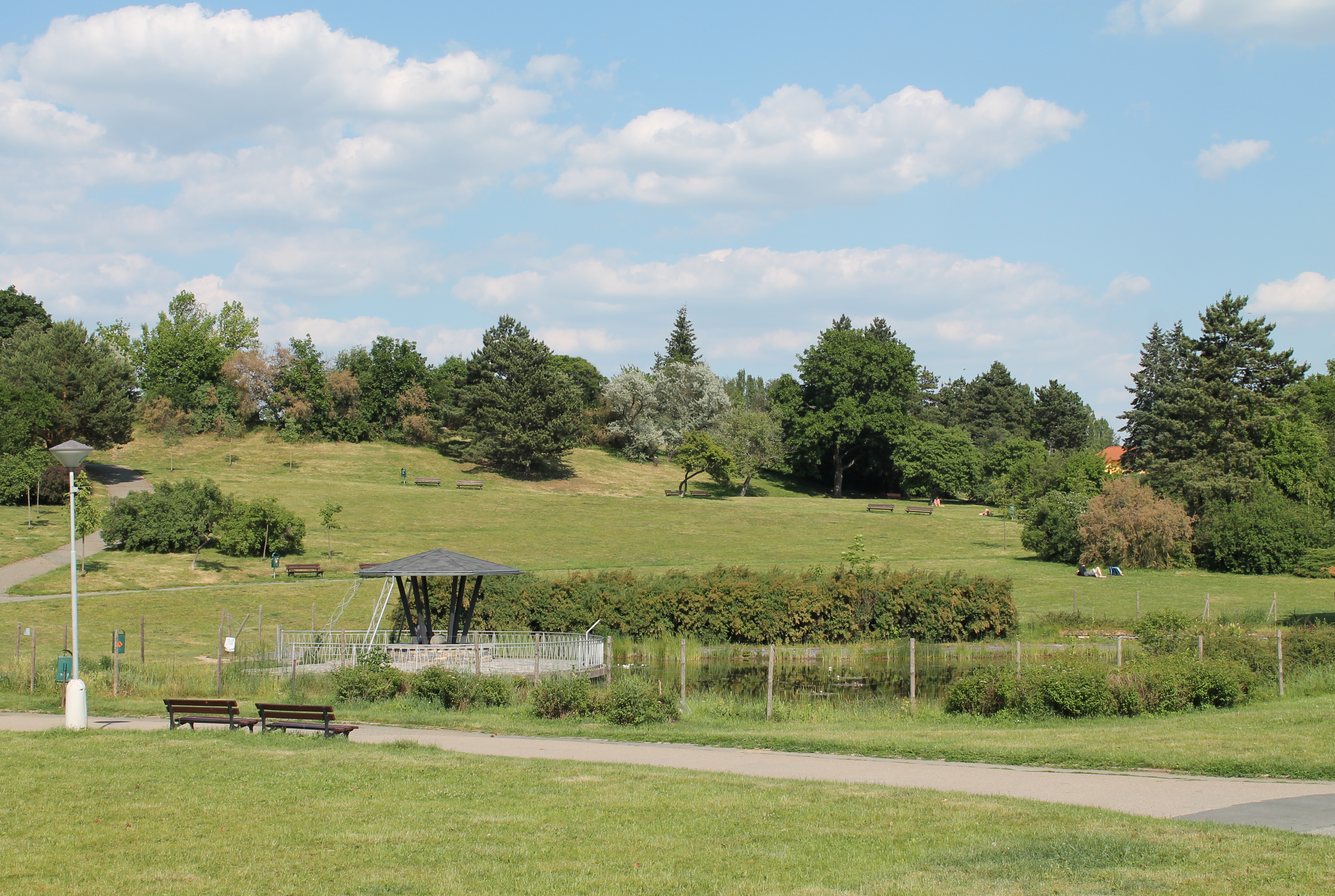 Kraví hora park, Brno, Czech Republic